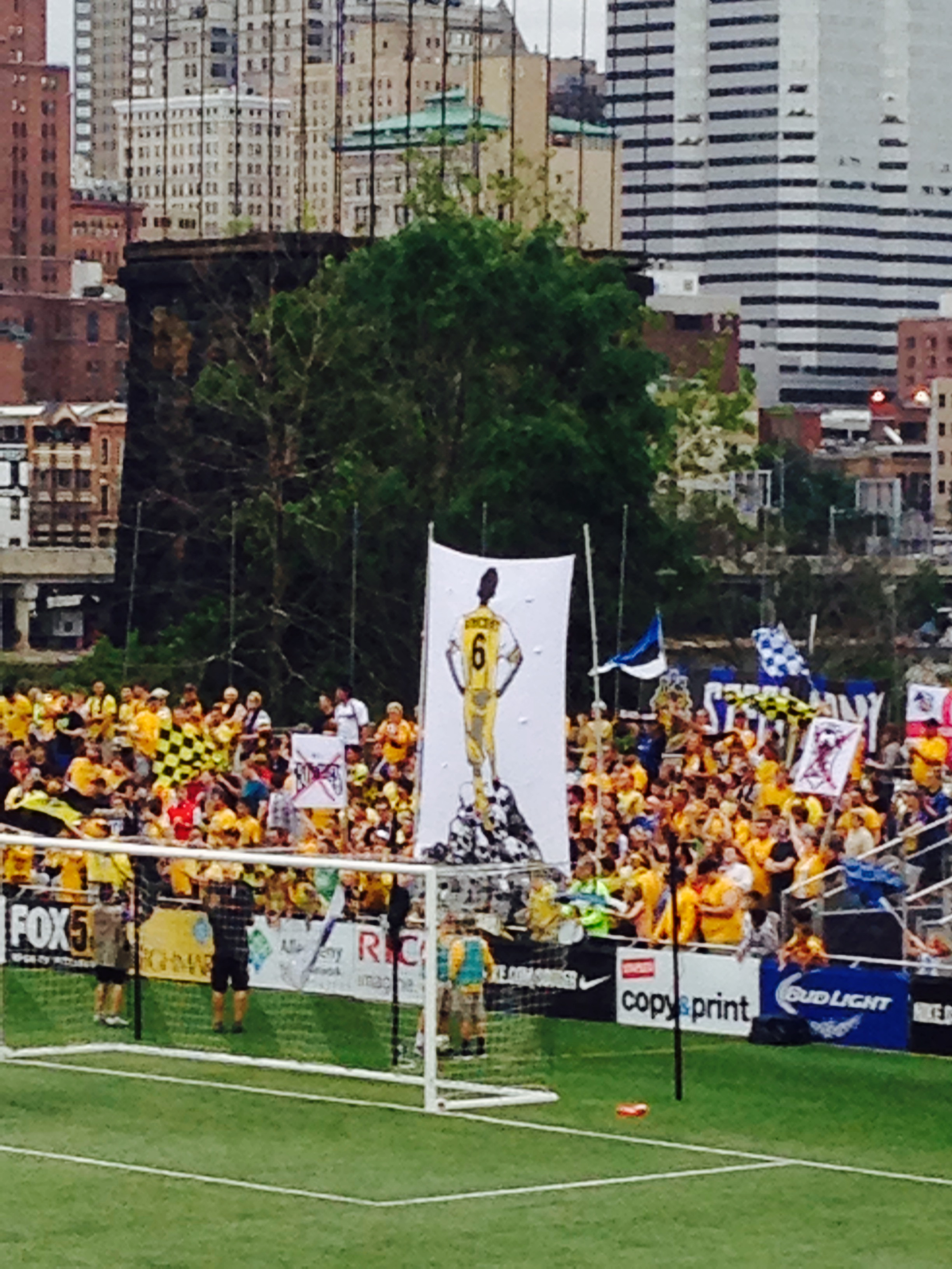 Tifo of Rob Vincent created by the Steel Army, supporter's group of the Pittsburgh Riverhounds, during 2015 US Open Cup match against DC United.